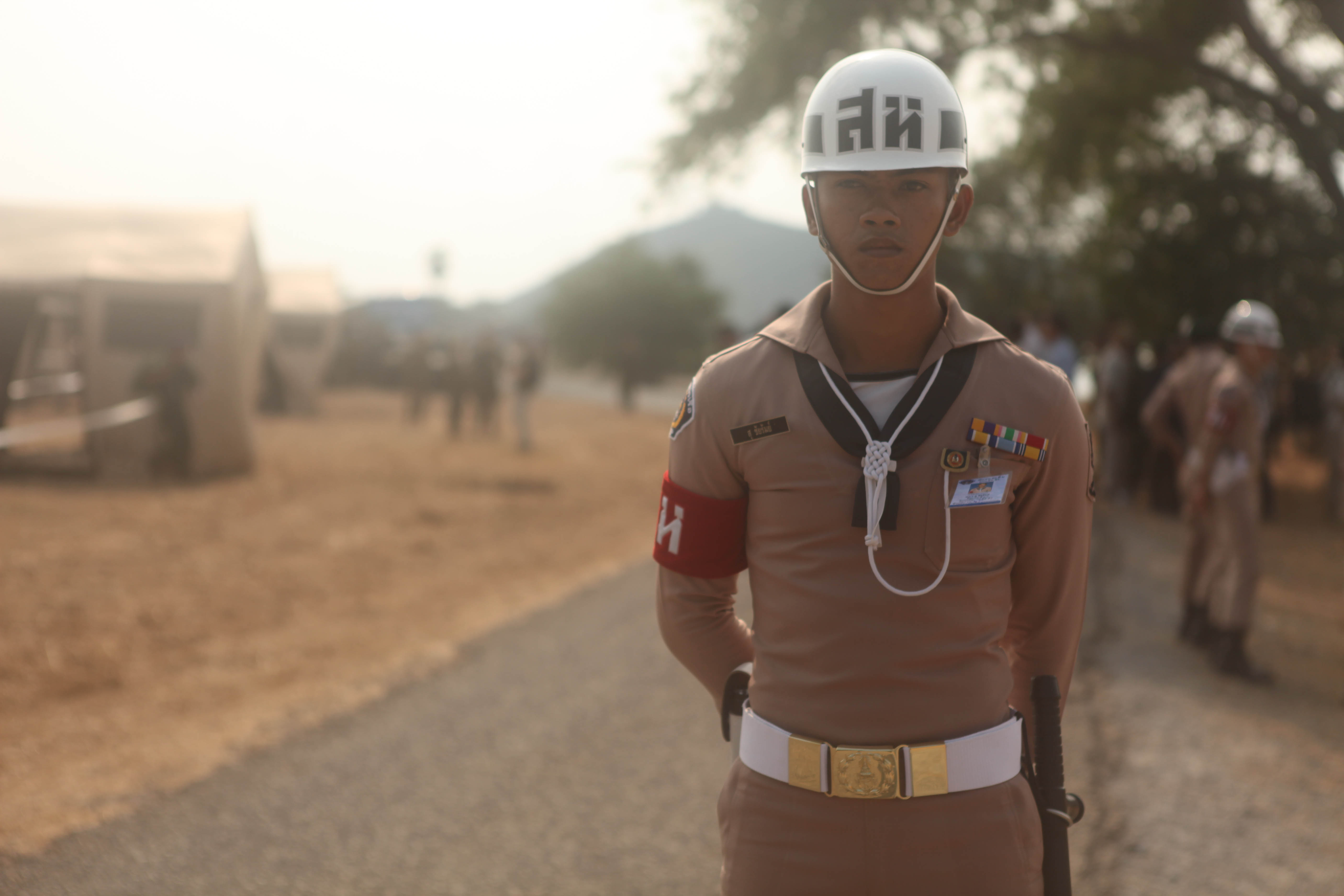 February 12, 2011, A Royal Thai Navy Sailor stands watch during a mock non-combatant evacuation operation (NEO), conducted with U.S. Marines with the 31st Marine Expeditionary Unit (MEU), 3rd Marine Expeditionary Brigade (MEB), at Hat Yao, Kingdom of Thailand, for Exercise Cobra Gold 2011. Also participating were members of the Japanese Self Defense Force. Cobra Gold 2011 marks the 30th anniversary of the exercise which focuses on basic military skills training, staff planning, and humanitarian and civic assistance projects.